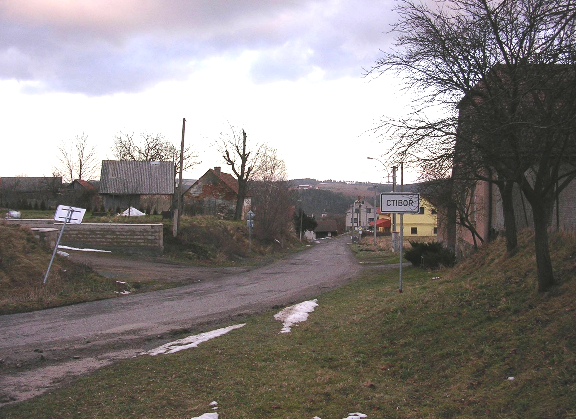 Ctiboř, Benešov District, Central Bohemian Region, the Czech Republic.